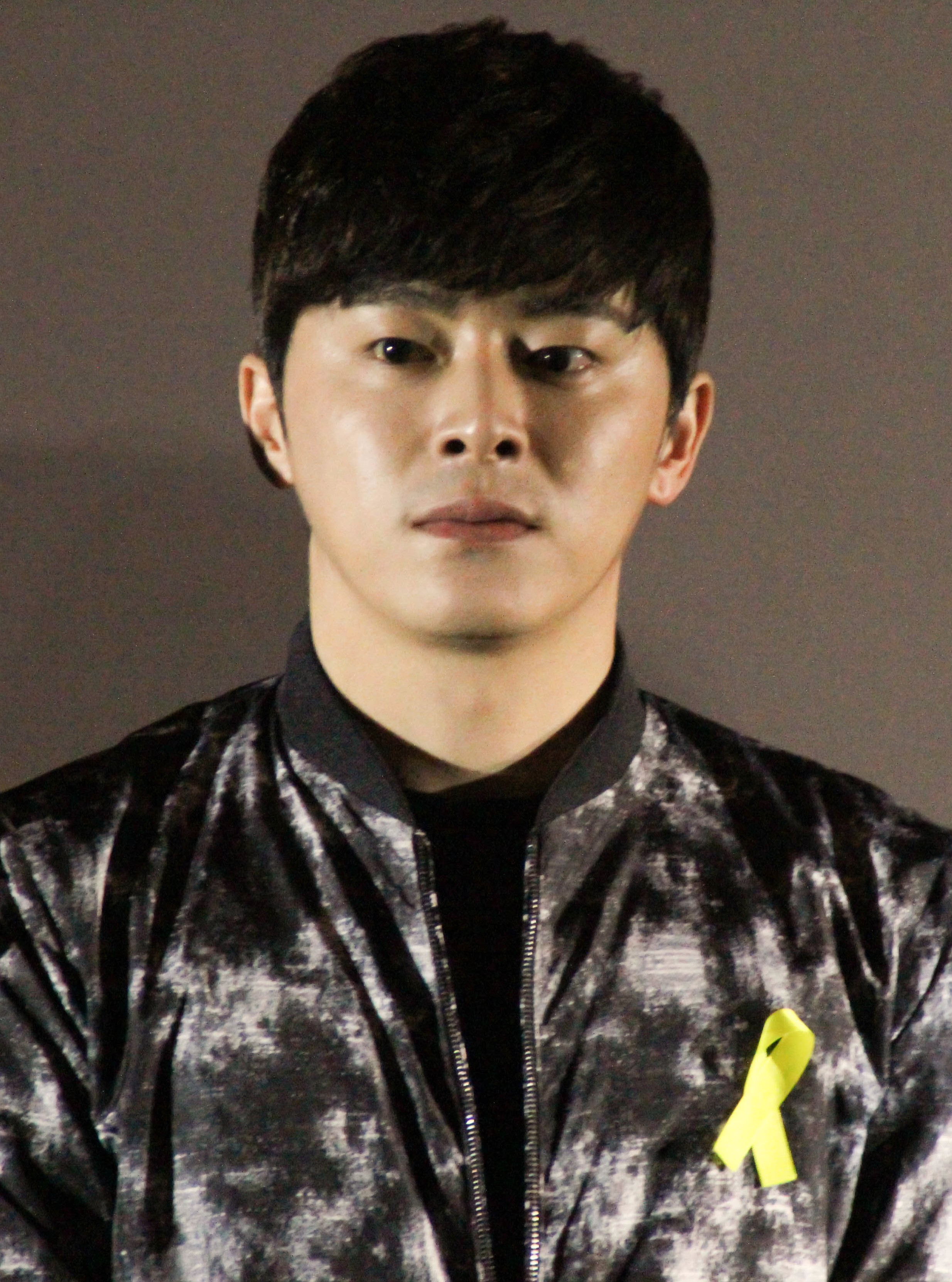 Jo Jung-suk at the press conference for "Fatal Encounter", 2 May 2014